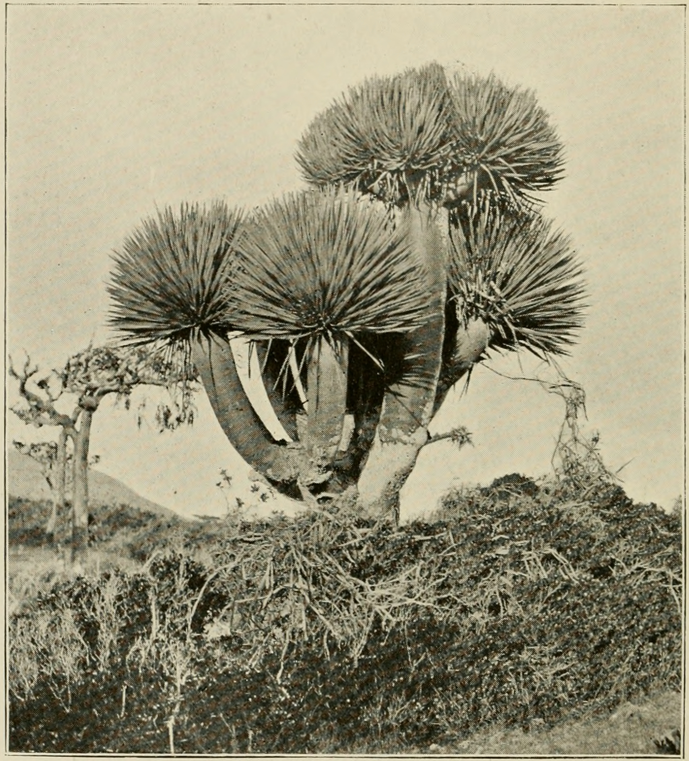 1898–99 photograph of Dracaena cinnabari in Socotra, from The Natural History of Sokotra and Abd-el-Kuri